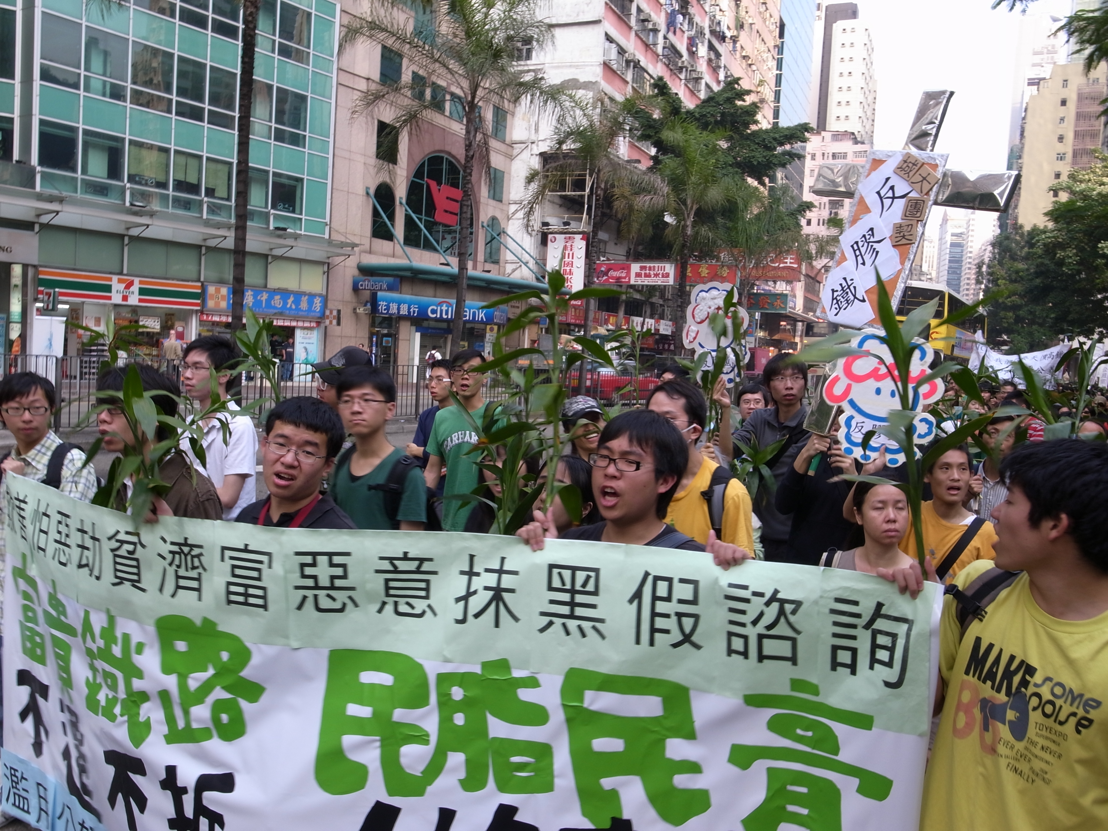 Anti-Guangzhou-Shenzhen-Hong Kong rail oppositions